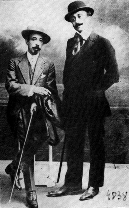 Ştefan Octavian Iosif and Dimitrie Anghel